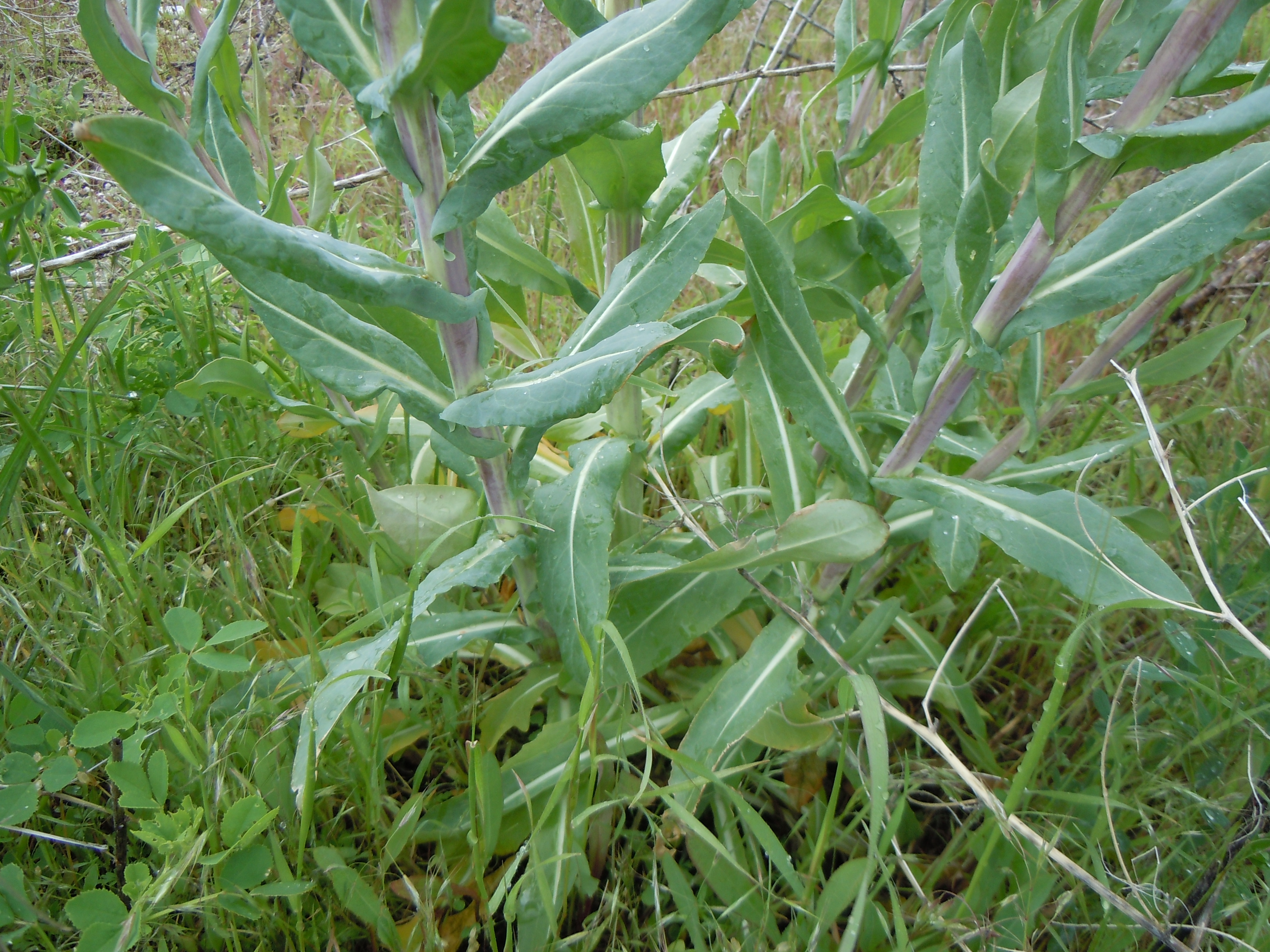 The glaucous stems and clasping leaves are diagnostic.